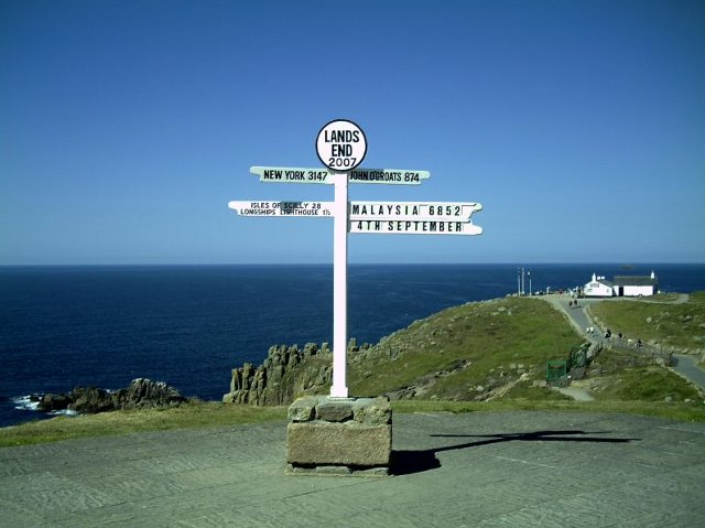 Land's end sign post